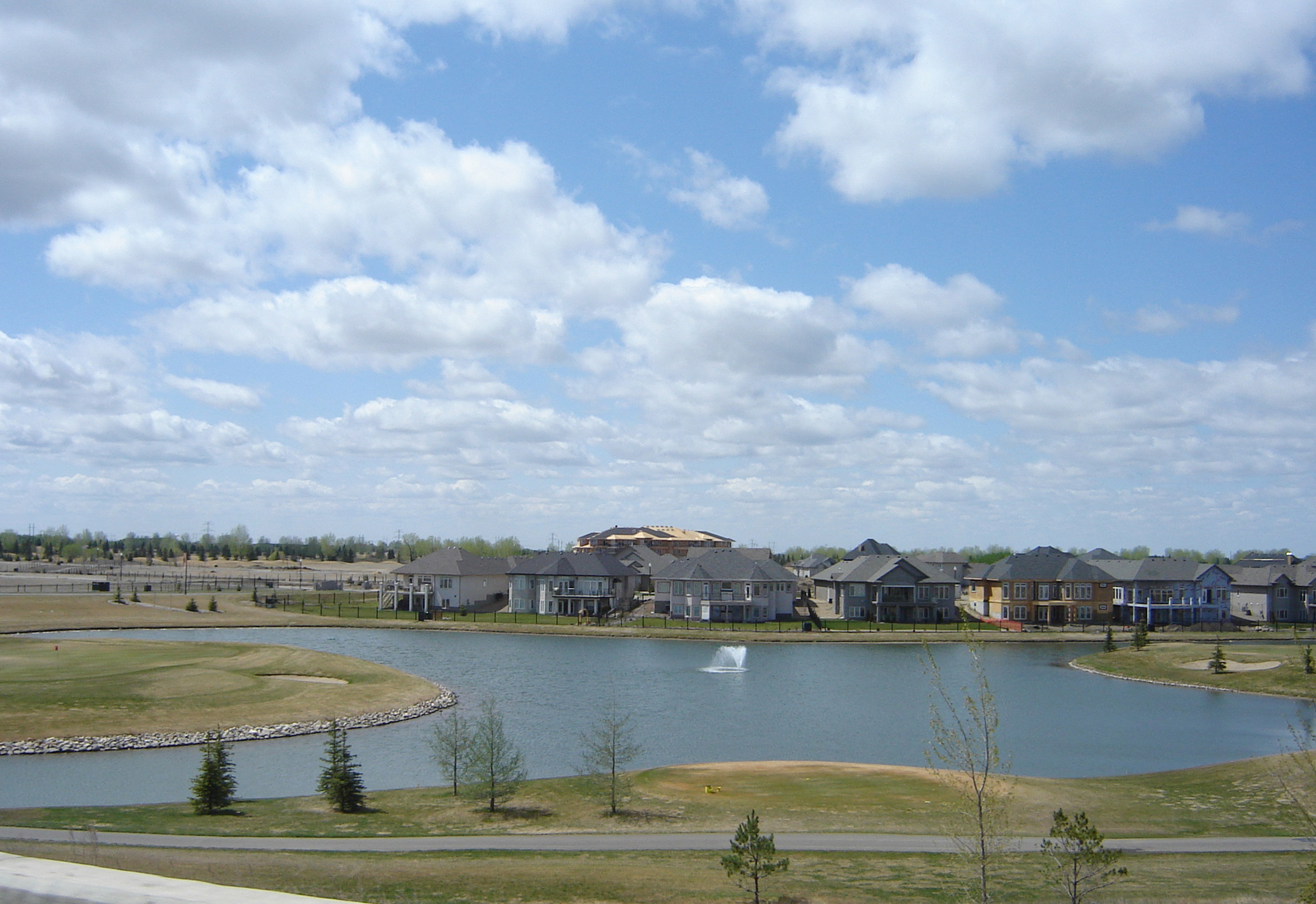 The Willows, Saskatoon Streetscape